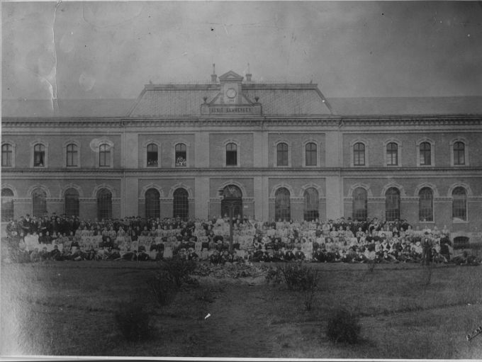 Frýdek (CZ), Lemberg's factory and its workers, 1898, today Slezan